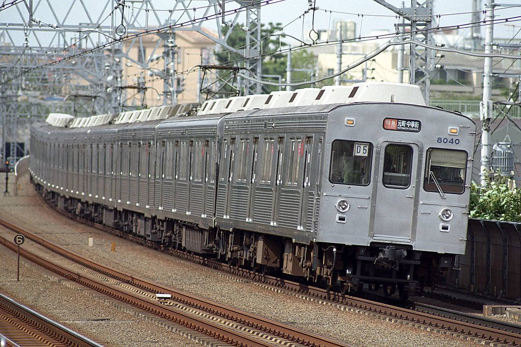 Tokyu 8000 series EMU set 8040 in plain, unpainted stainless steel livery neat Tamagawa Station on the Tokyu Toyoko Line